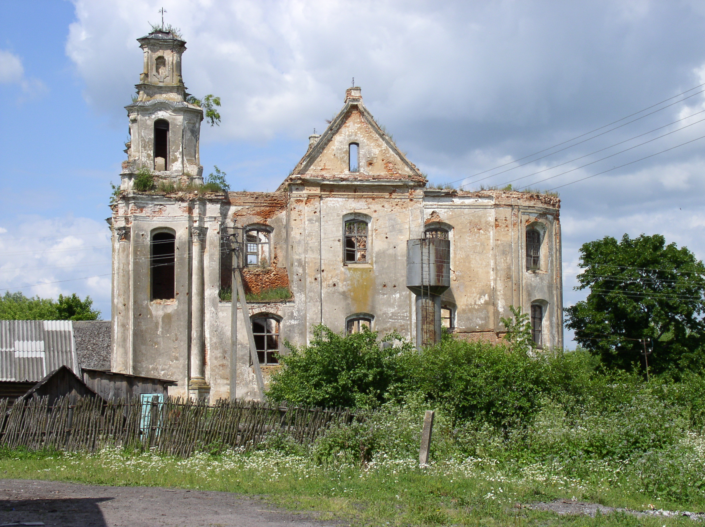 Church of Saint Virgin Mary, Smalyany, Belarus.